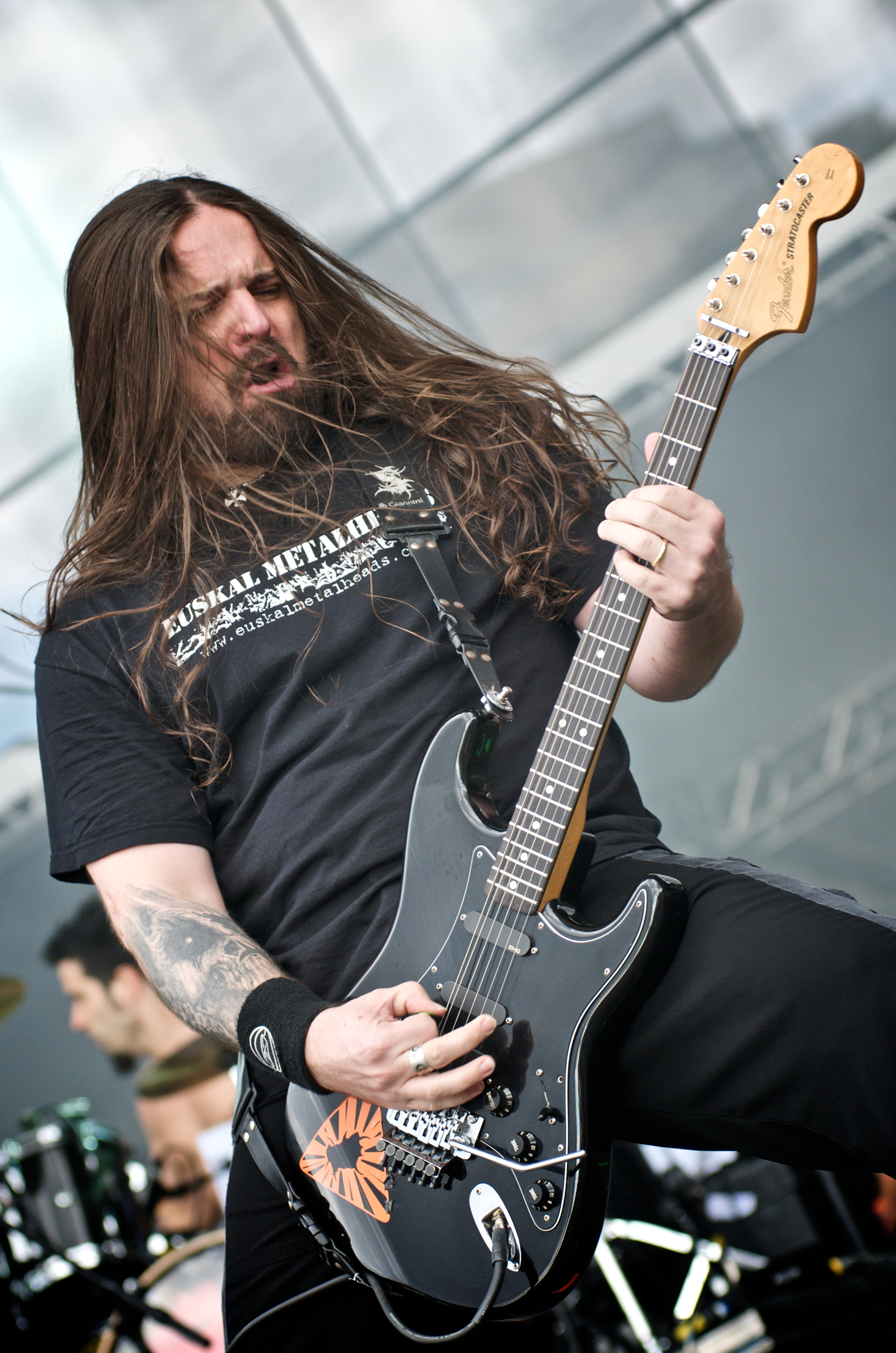 Sepultura in Maquinária Festival, occurred in November 7 2009 at São Paulo, Brazil.